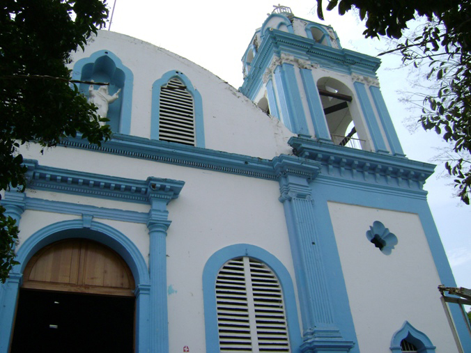 This is a picture of Santa Maria de la Aunción church now a days in Atoyac de Alvarez, Guerrero